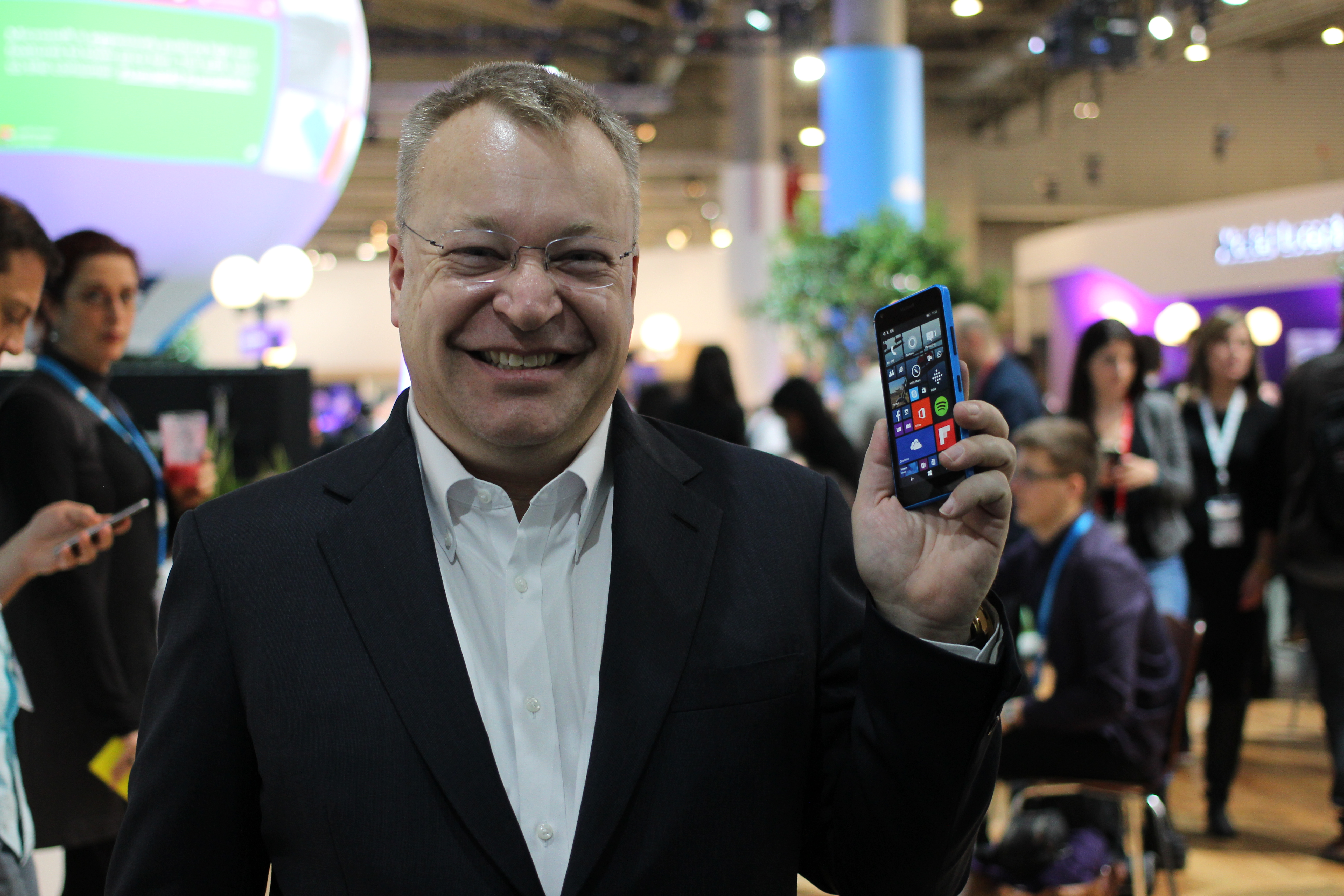 Stephen Elop, executive vice president, Microsoft Devices Group, with his Lumia 640 XL